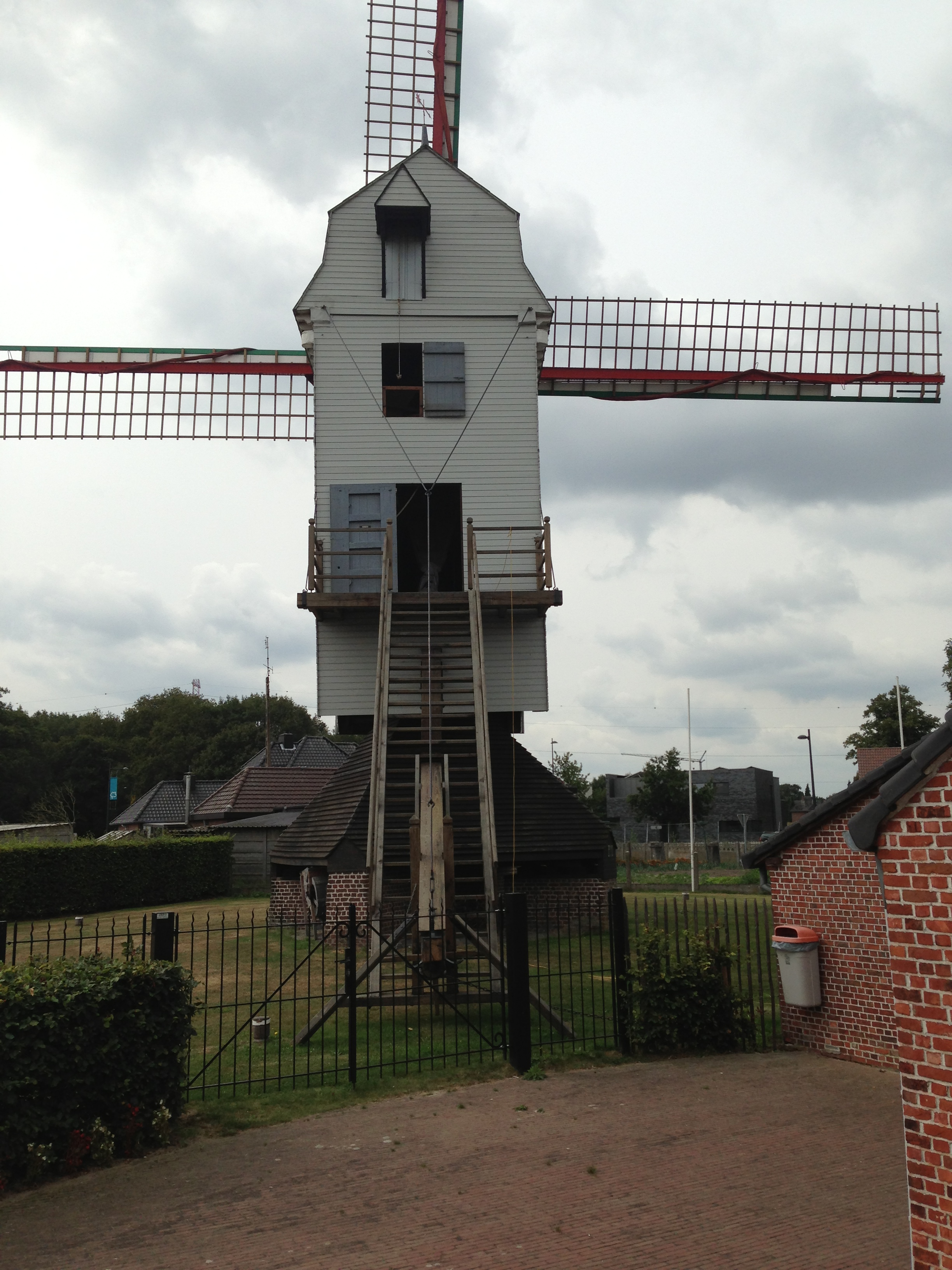 The Star Mill (Stermolen) at Eksel - fully restored and in function on the second saturday and fourth sunday of each month.